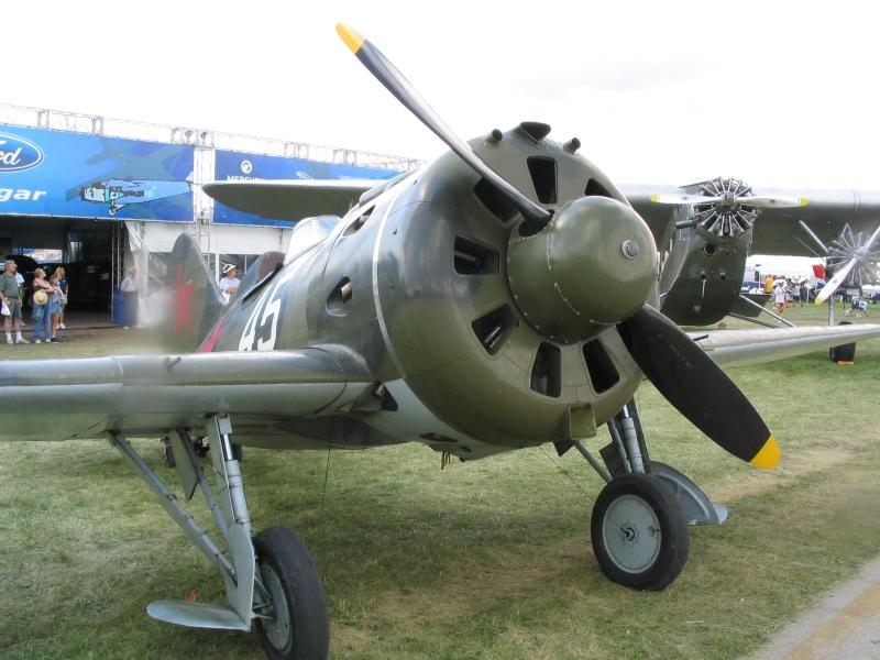 Polikarpov I-16 at AirVenture Oshkosh in 2003